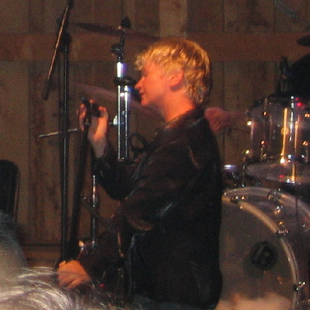 Anne Clark, concert on July 28, 2008 in Dortmund, Germany